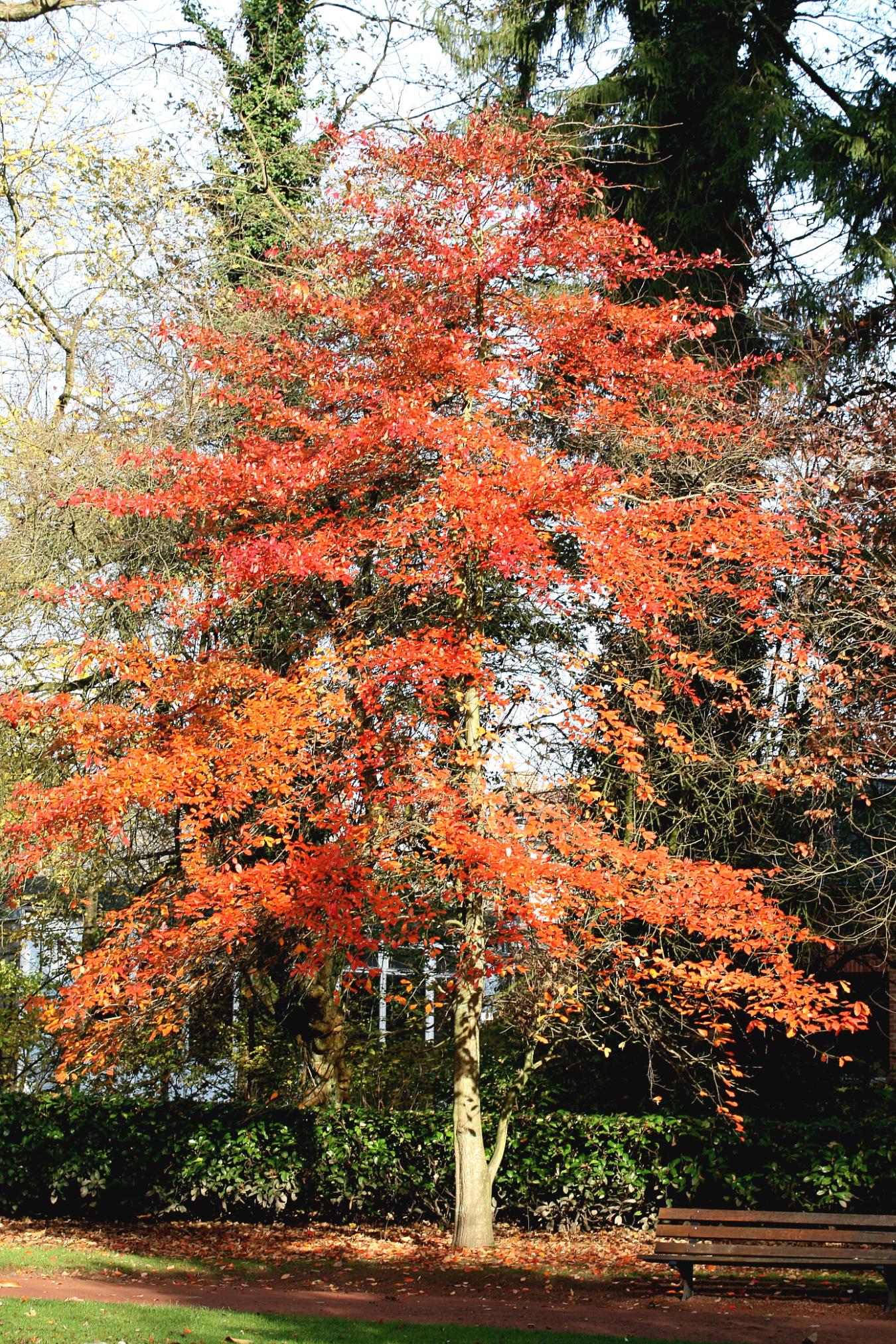 Black tupelo (Nyssa sylvatica). Walon: Nwâr tupelèlo (Nyssa sylvatica).